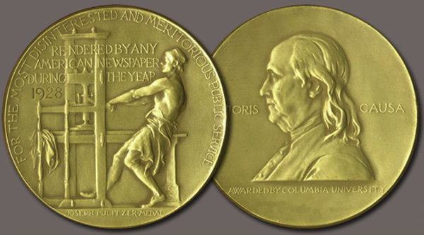 The Pulitzer Prize gold medal award